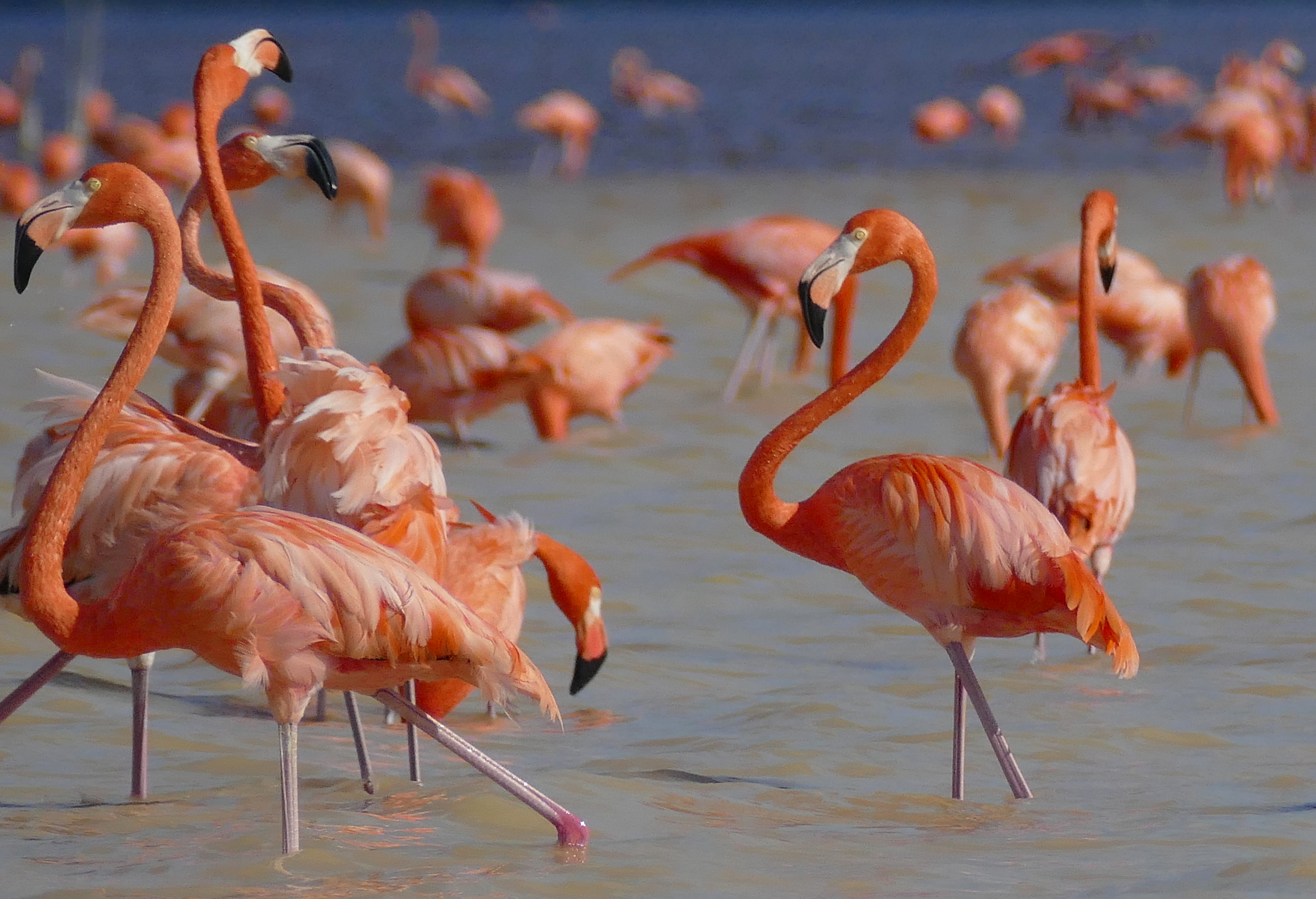 Ría Celestun Biosphere Reserve , Yucatan, MEXICO